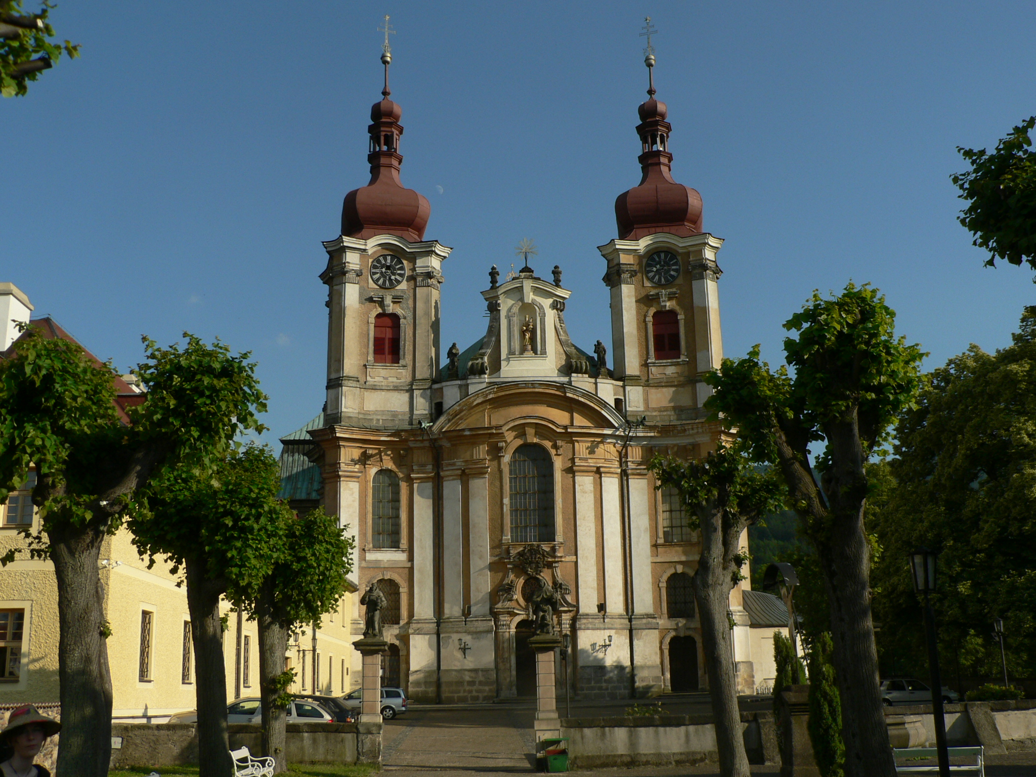 Basilica of the Visitation in Hejnice, Liberec District, Czech Republic.